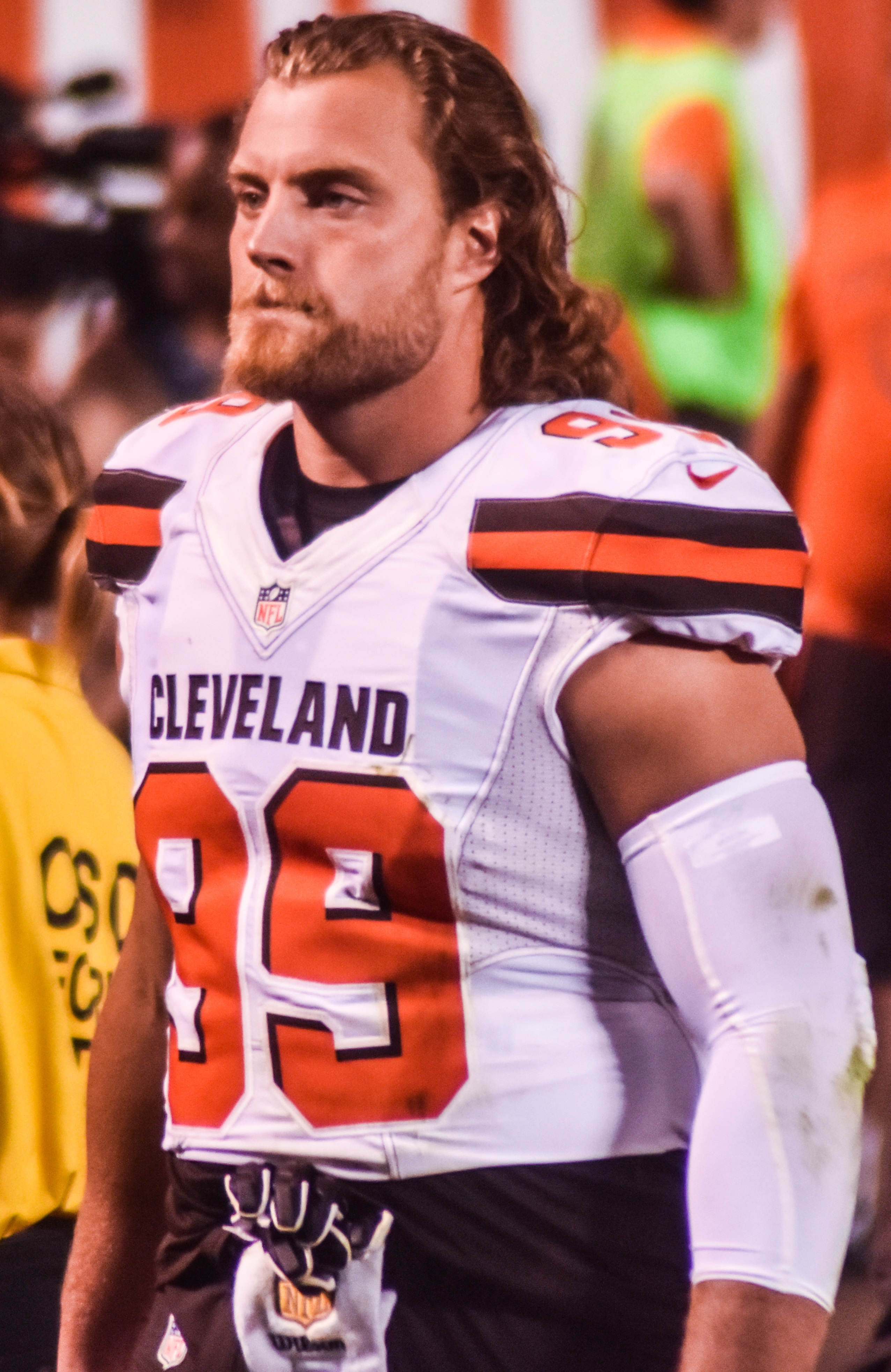 Browns vs Bills